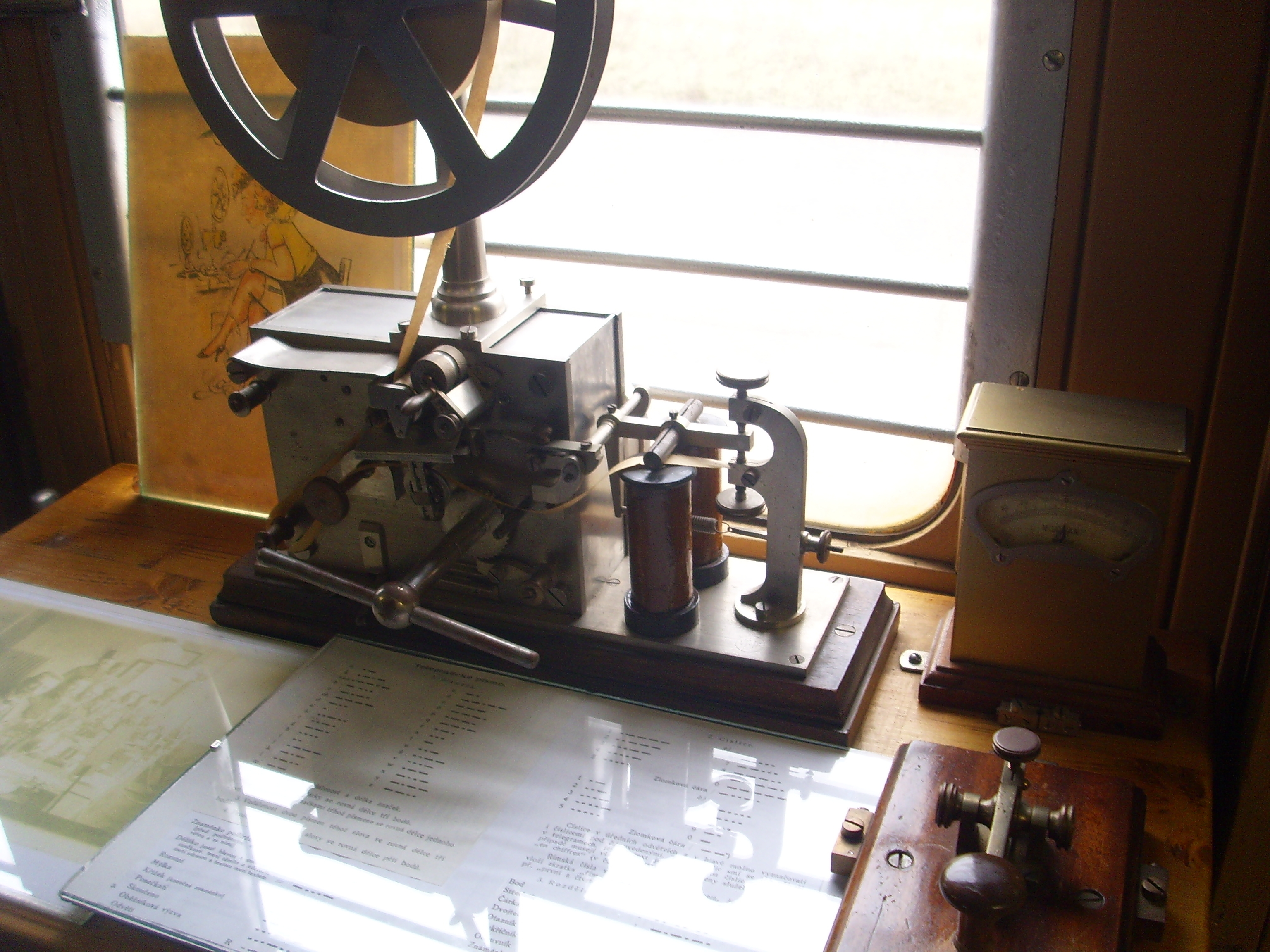 Telegraph